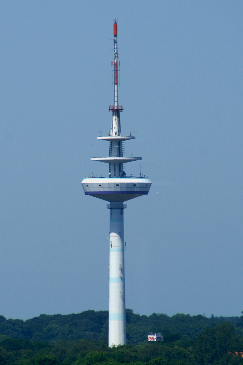 Tower “Schliekieker” in Schleswig.